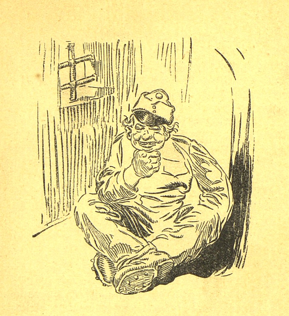 The "good soldier" Švejk in prison. An illustration to a pre-WWI series of short stories (Dobrý voják Švejk) by Jaroslav Hašek where the famous character appeared for the first time.